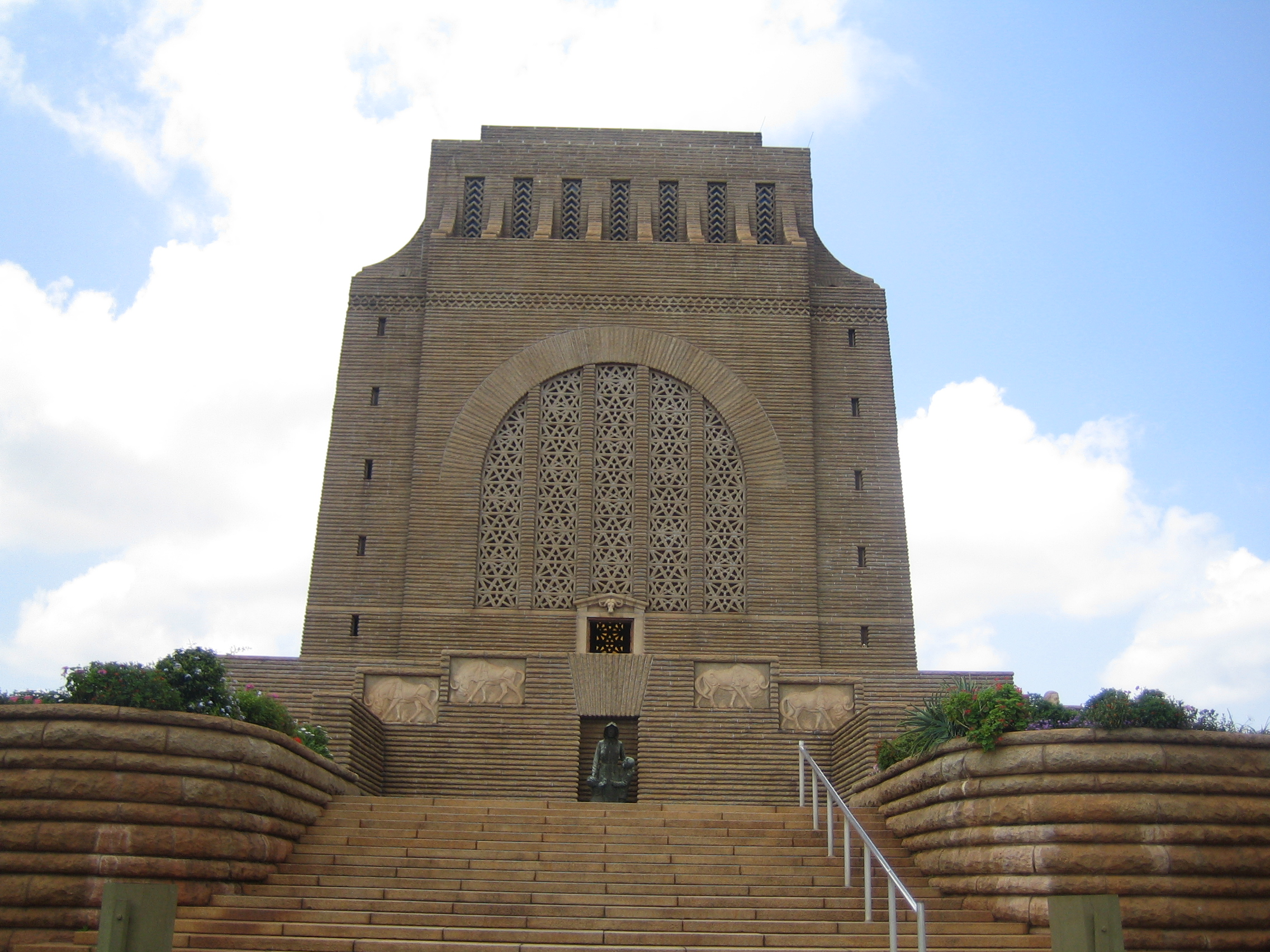 Front view of the Voortrekker Monument, Pretoria, South Africa